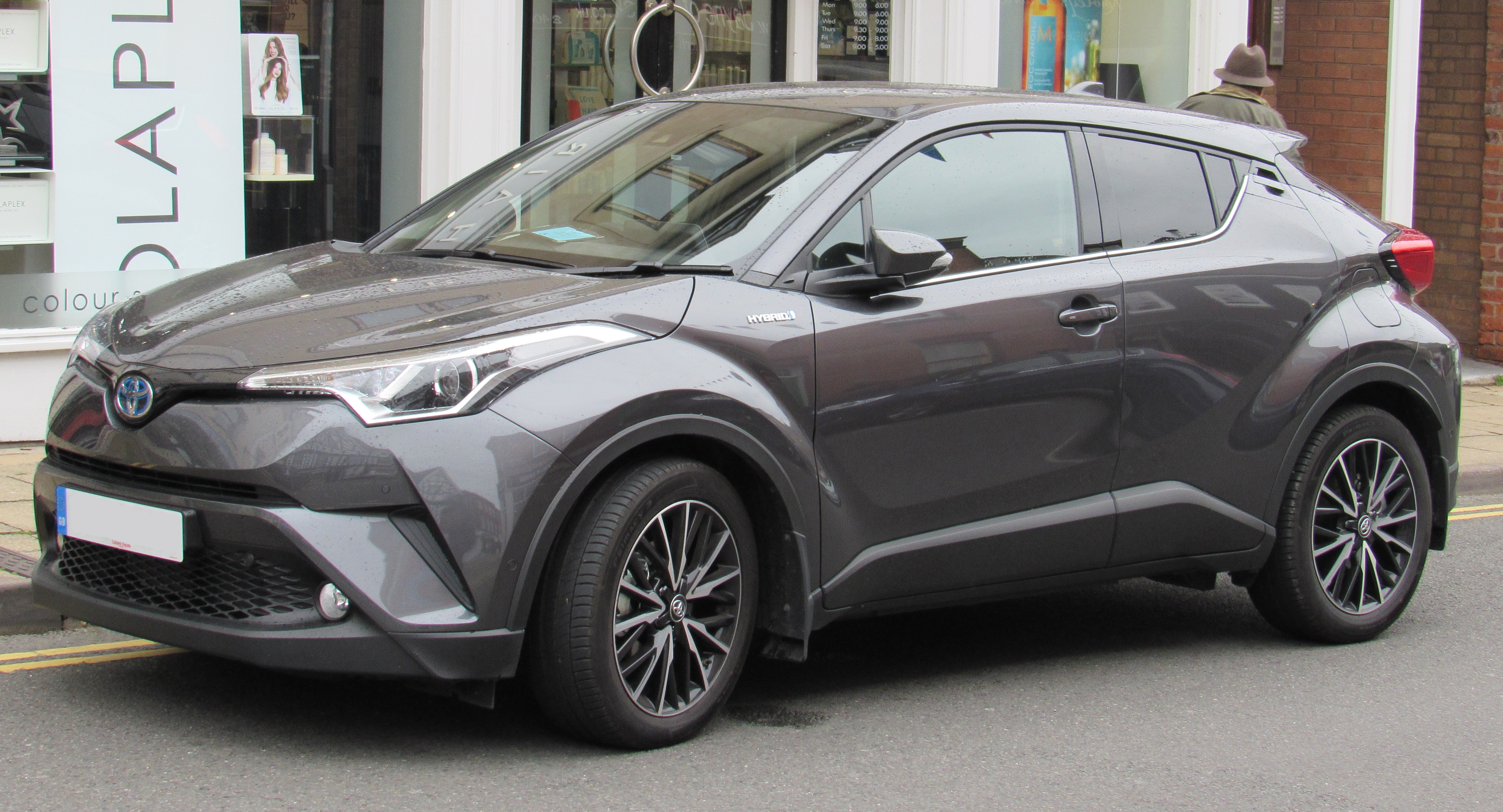 2017 Toyota CH-R Excel CVT Hybrid 1.8 Taken in Warwick